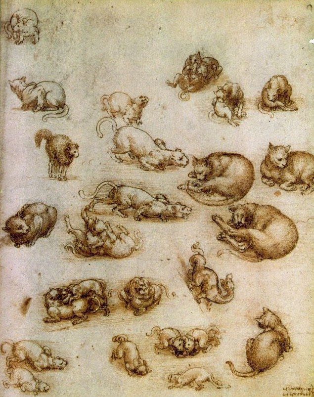 Studys of cats and dragon